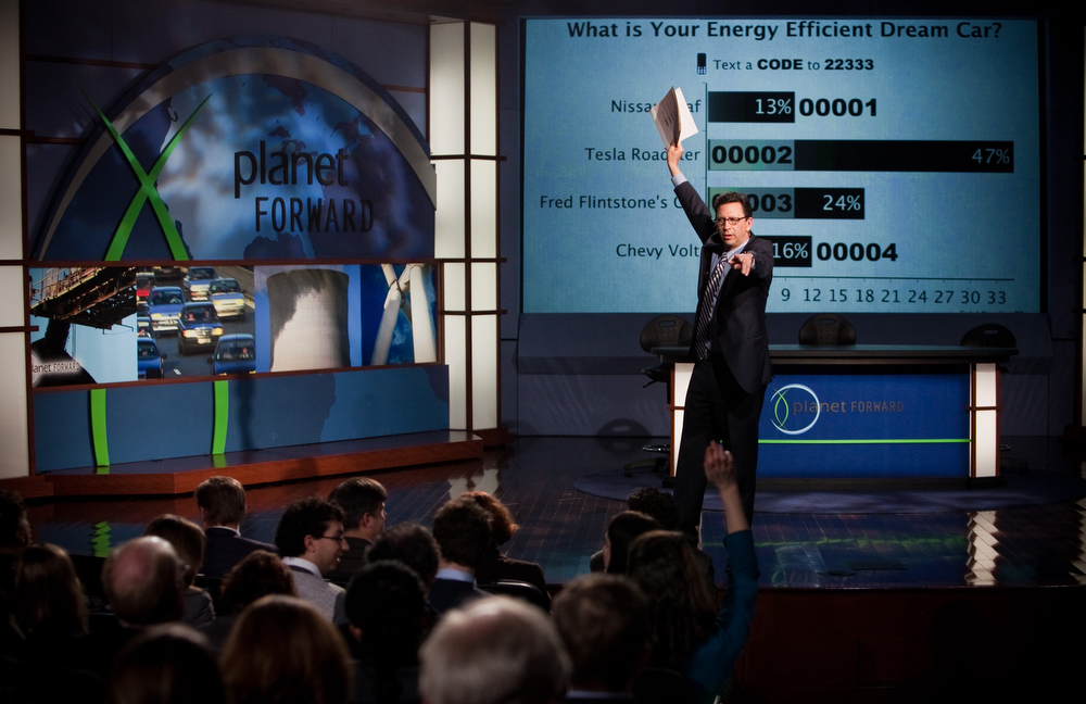 Frank Sesno gets the audience involved during the 2011 PBS special.